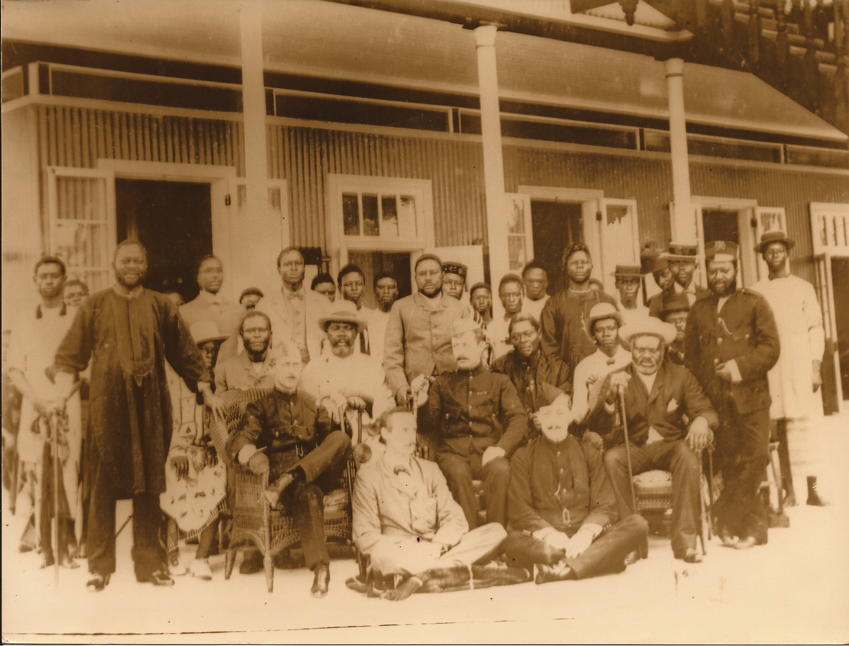 Bonny Chiefs with Naval Commandant of the Coast Biafra and Bight of Benin 1896